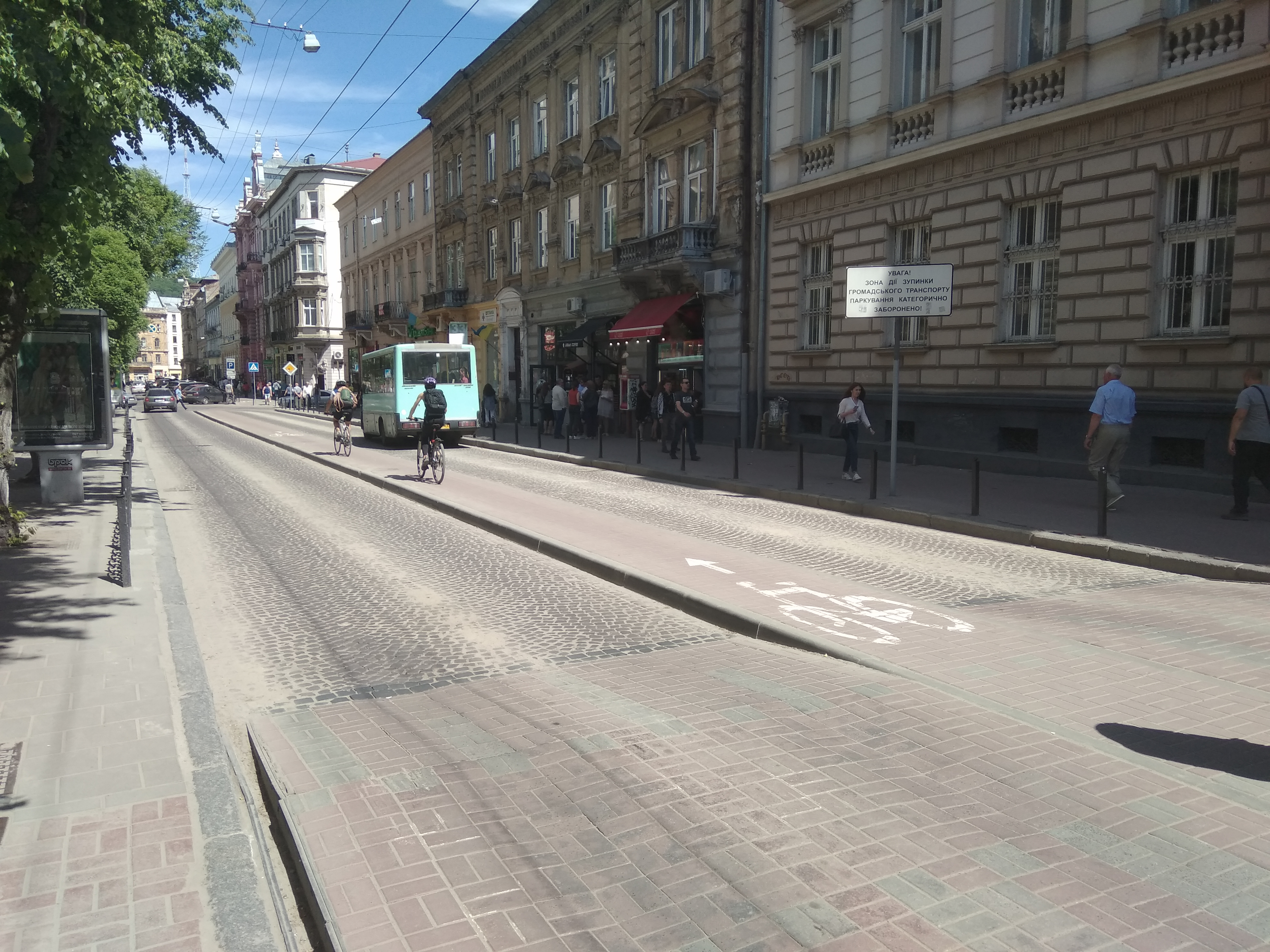 Raised Pedestrian Crossing on Sichovykh Striltsiv street in downtown of Lviv, Ukraine